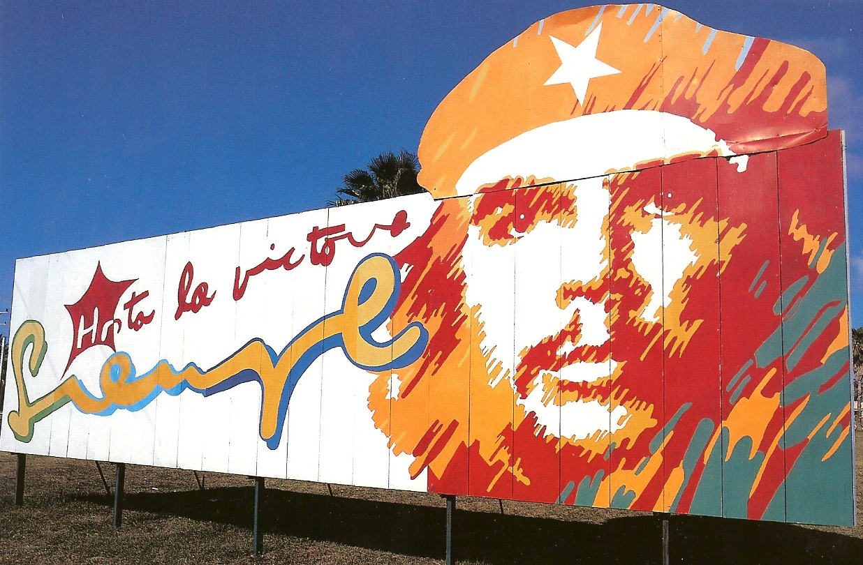 A pro-revolution billboard along a highway in Cuba showing Che Guevara in the Guerrillero Heroico pose - with Che's slogan of "Hasta la Victoria Siempre" (Until the Everlasting Victory Always).